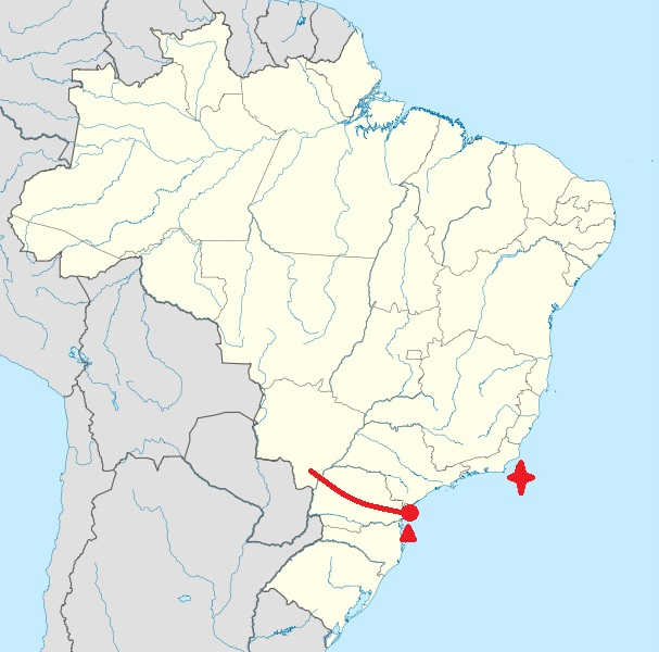 Course of the doomed balloon flight by priest Adeir de Carli in 2008. Red dot: departure from Paranaguá (PR), April 20th, 2008 Red line: planned course, expected to arrive in Dourados (MS) the next day Red triangle: last radio contact, near São Francisco do Sul (SC), April 20th, 2008 Red cross: body found 100 km off the coast of Macaé (RJ), July 4th, 2008